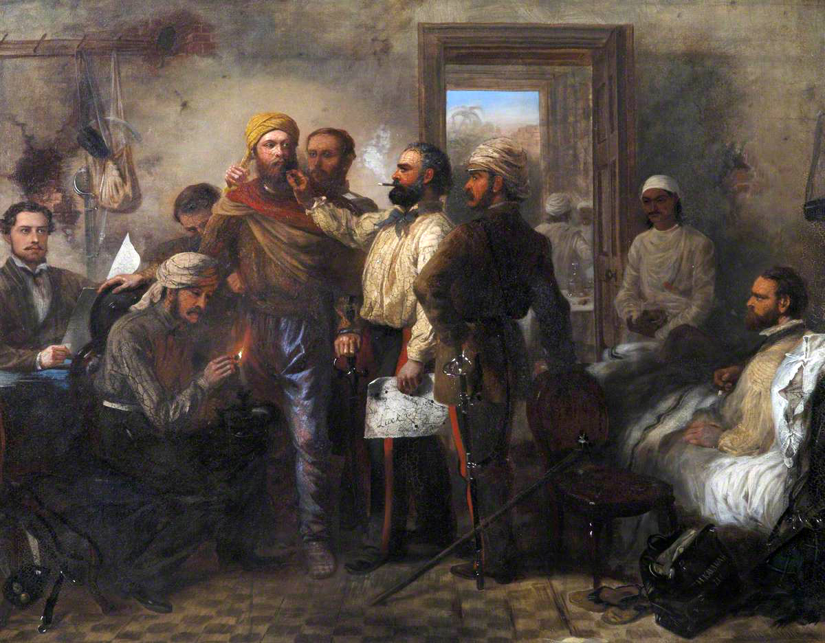 Painting of Thomas Henry Kavanagh during the Siege of Lucknow by Louis Desanges between 1857 and 1862 and now in the National Army Museum, London.